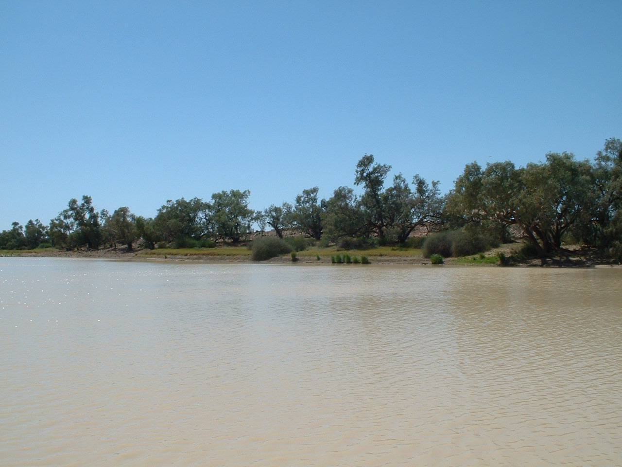 Bullah Bullah Waterhole, on Coopers Creek, Queensland, Australia, near the the Burke and Wills Dig Tree. The Burke and Wills expedition camped at this location.